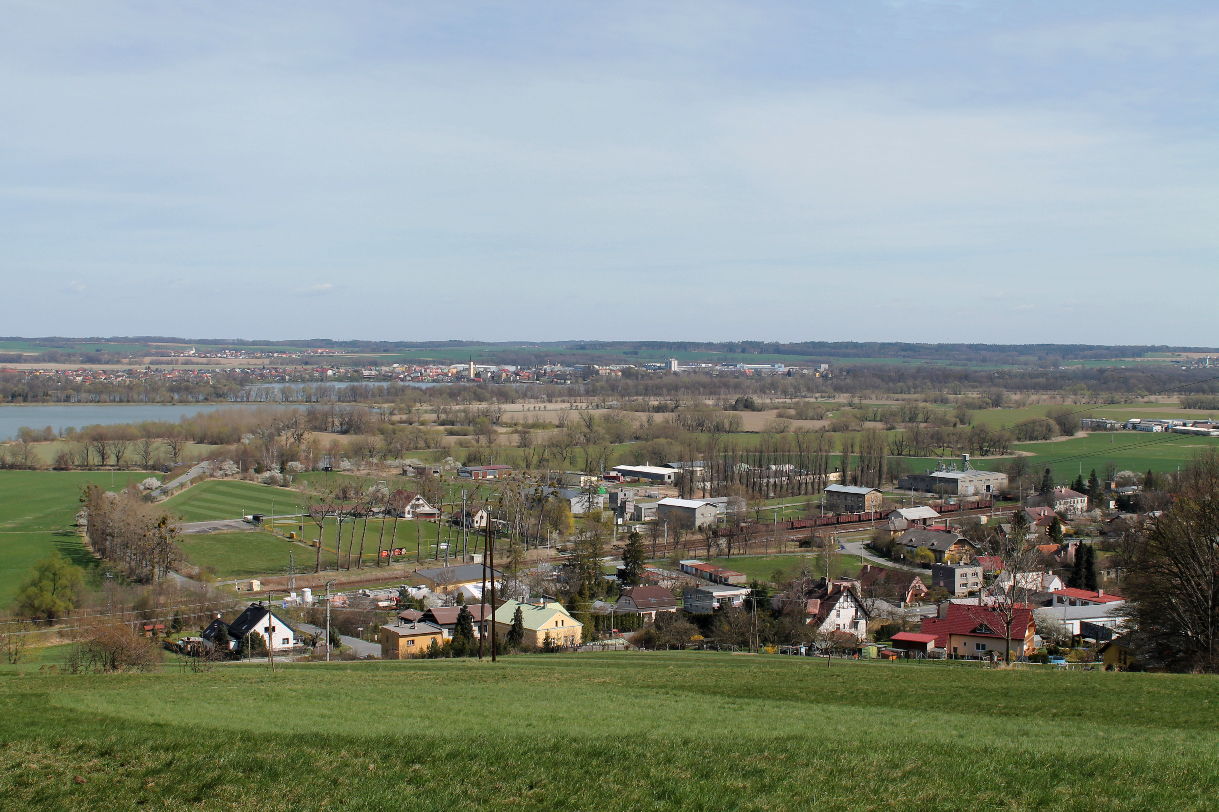 View from Padařov hill towards to northeast to Háj ve Slezsku and Dolní Benešov, Opava District